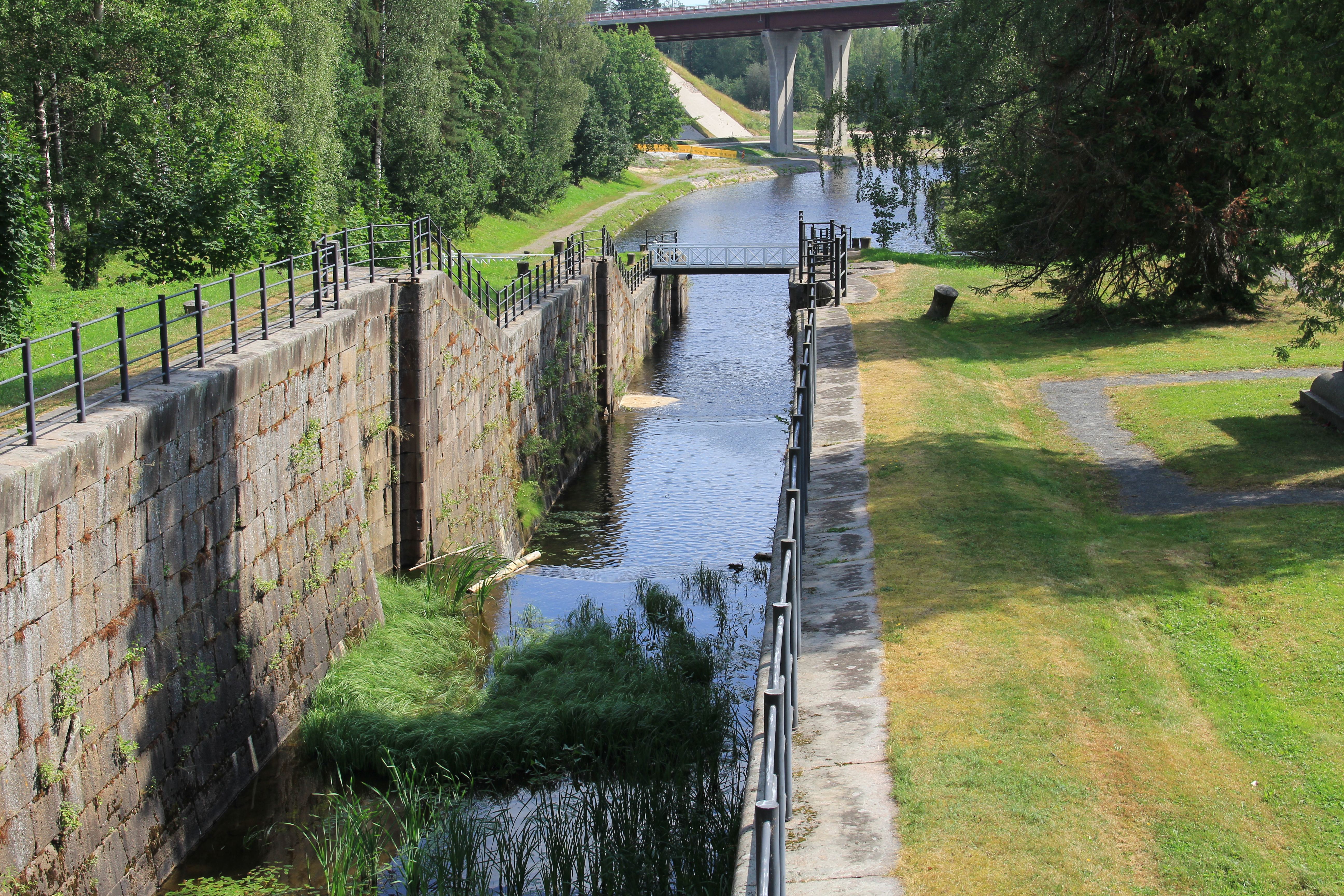 Old Saimaa canal, Mälkiä lock, Lappeenranta, Finland. A museum canal. Backgrund: 2008 & 2010 completed bridges over the canal.